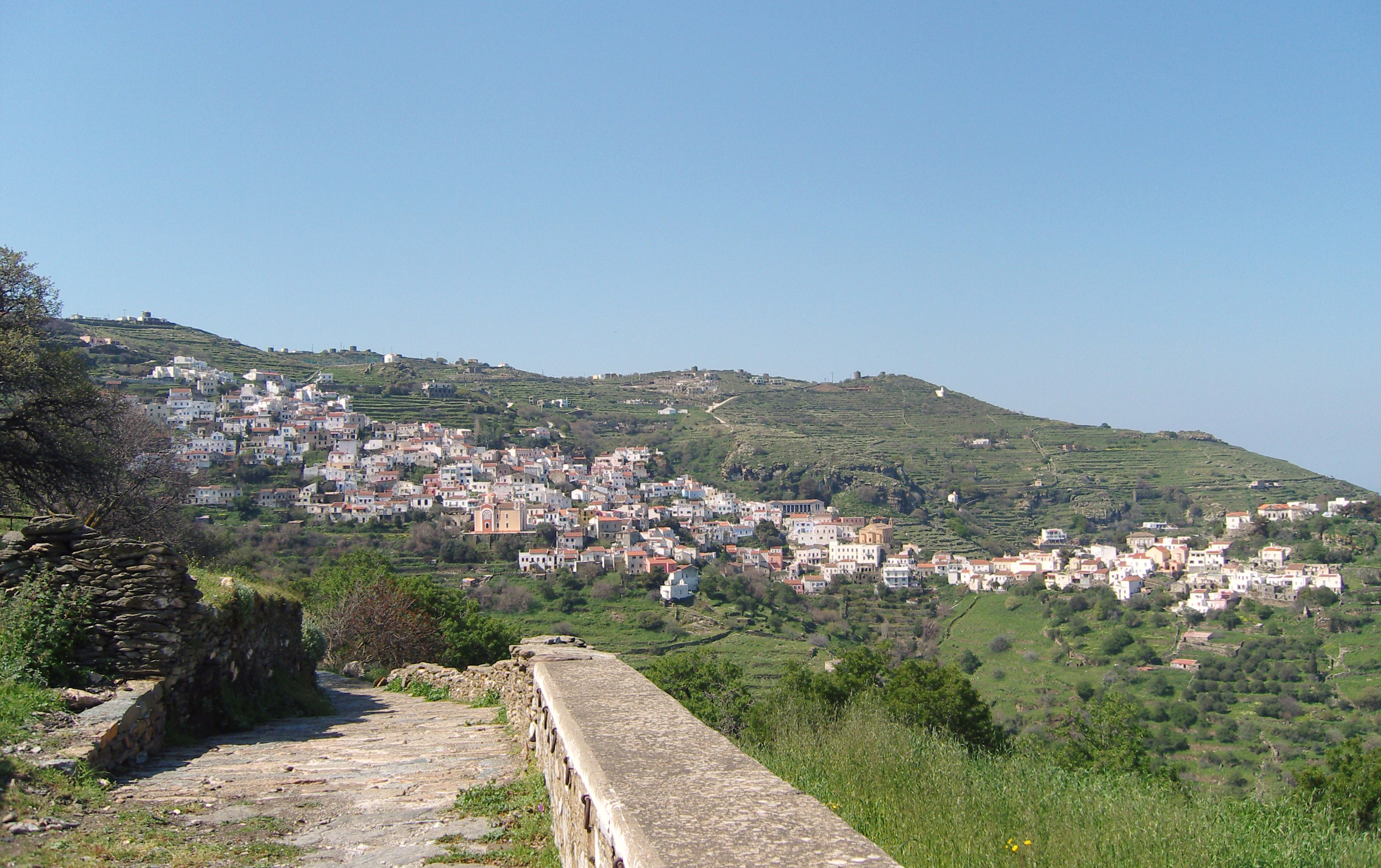 View of capital of Kea island, Greece